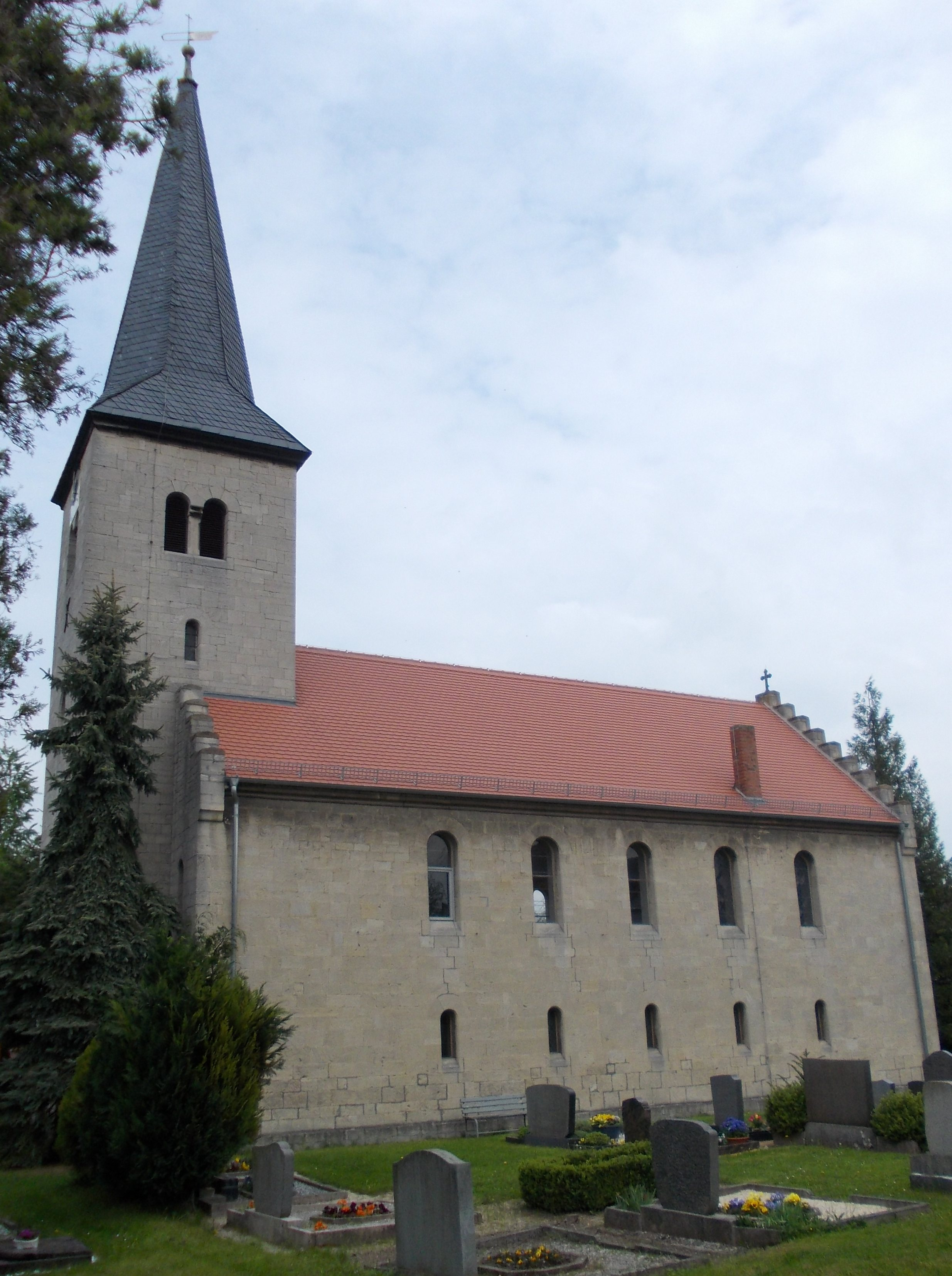 St. Nicholas Church in Obermöllern (Lanitz-Hassel-Tal, district: Burgenlandkreis, Saxony-Anhalt)